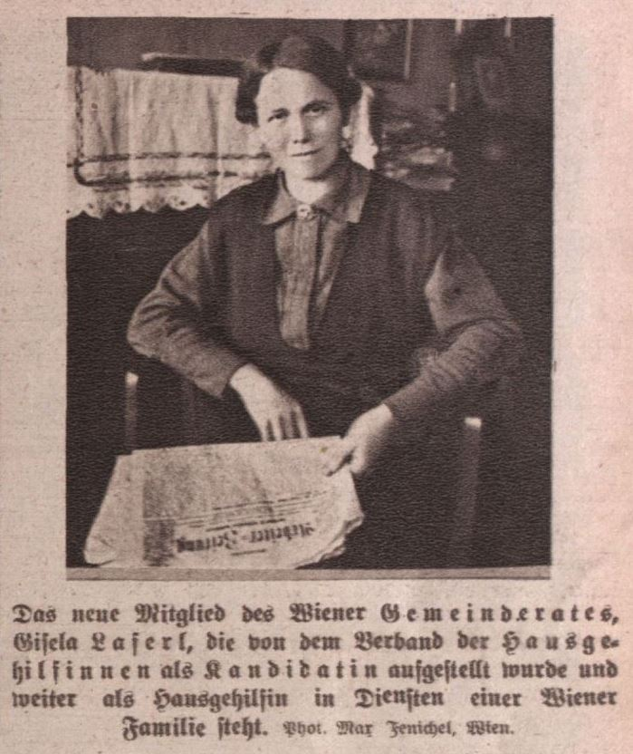 Viennese city councillor Gisela Laferl (1884-1968) in 1919 (from 1920 married to Isidor Wozniczak). Photo by Max Fenichel (1885-1942).